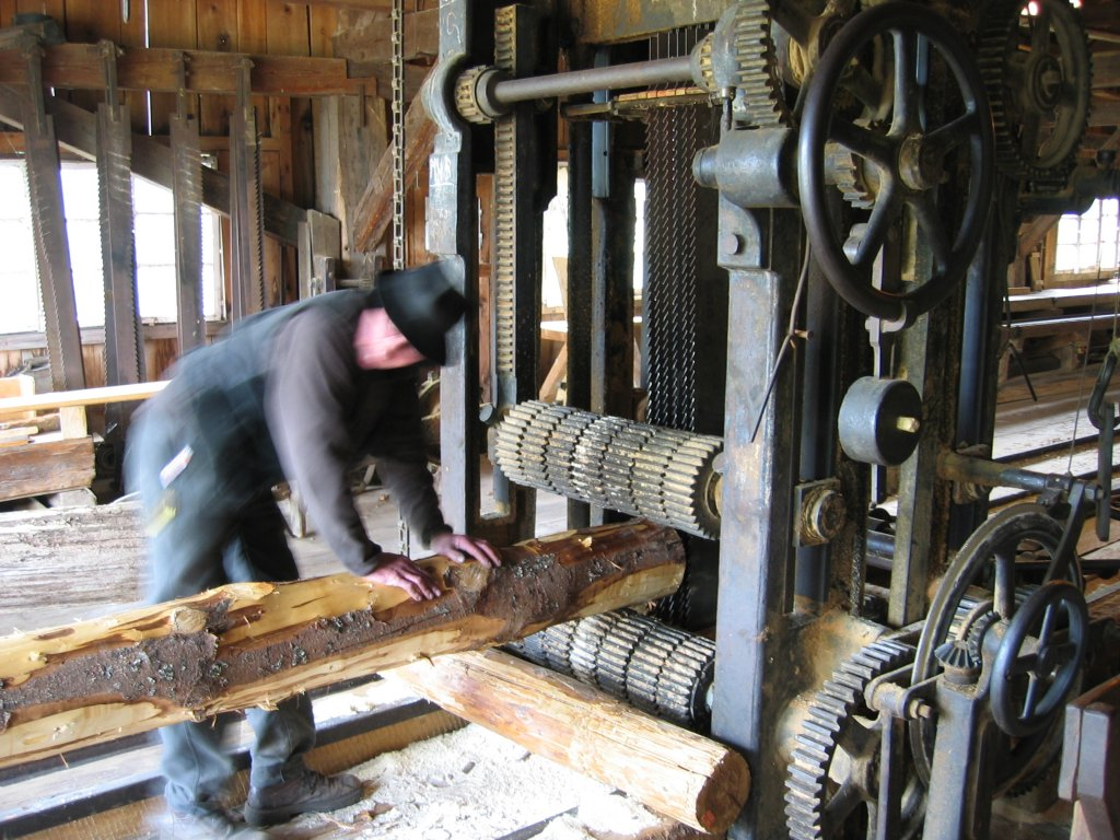 Ecomusée d'Alsace: inside the water mill with sawmill from Moosch (19th century)